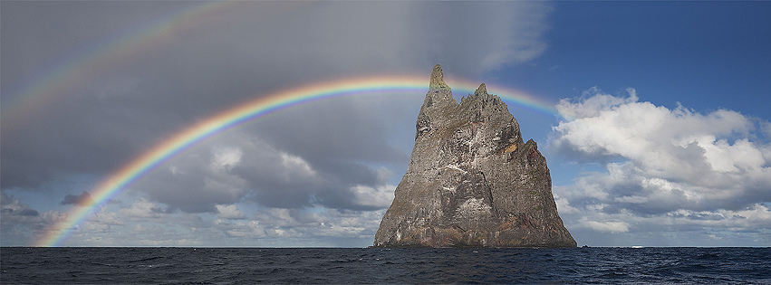 Ball's Pyramid, near Lord Howe Island.